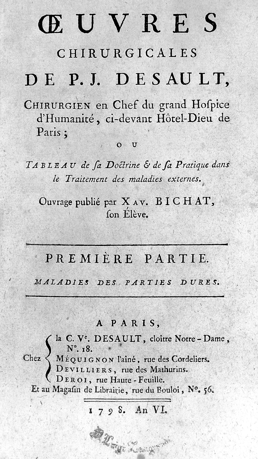 Title page Rare Books Keywords: surgery, late 18th century; Pierre Joseph Desault